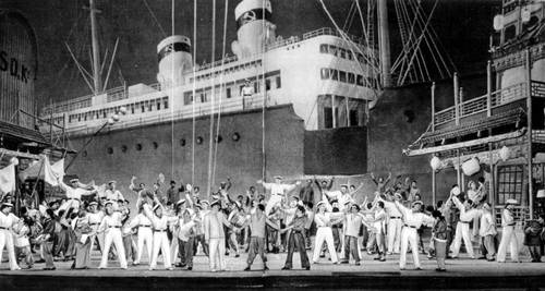 a scene from the ballet "The Red Poppy" by R.Gliere